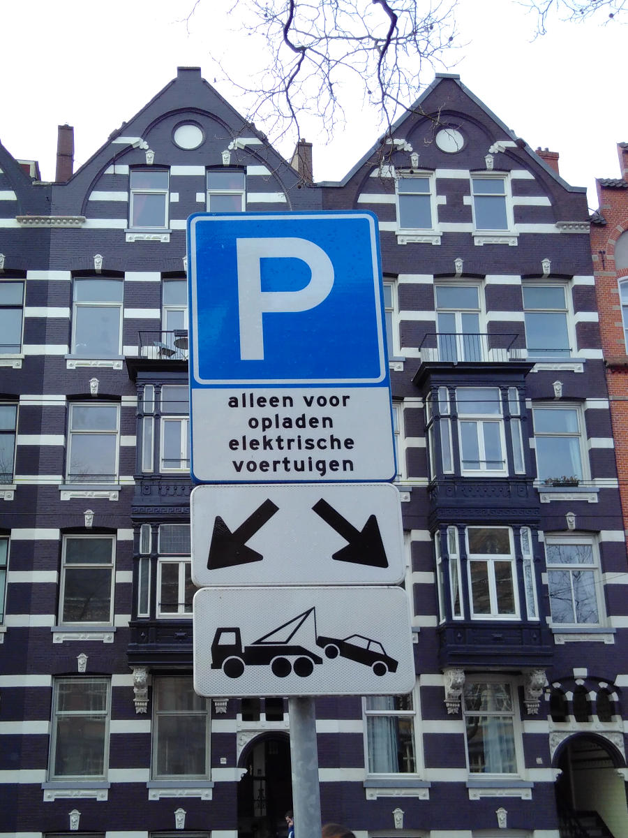 Parkingplace only for charging electric cars. If the car is not connected to the charing pole or is not charging, the car will be locked and a traffic ticket has to be paid.